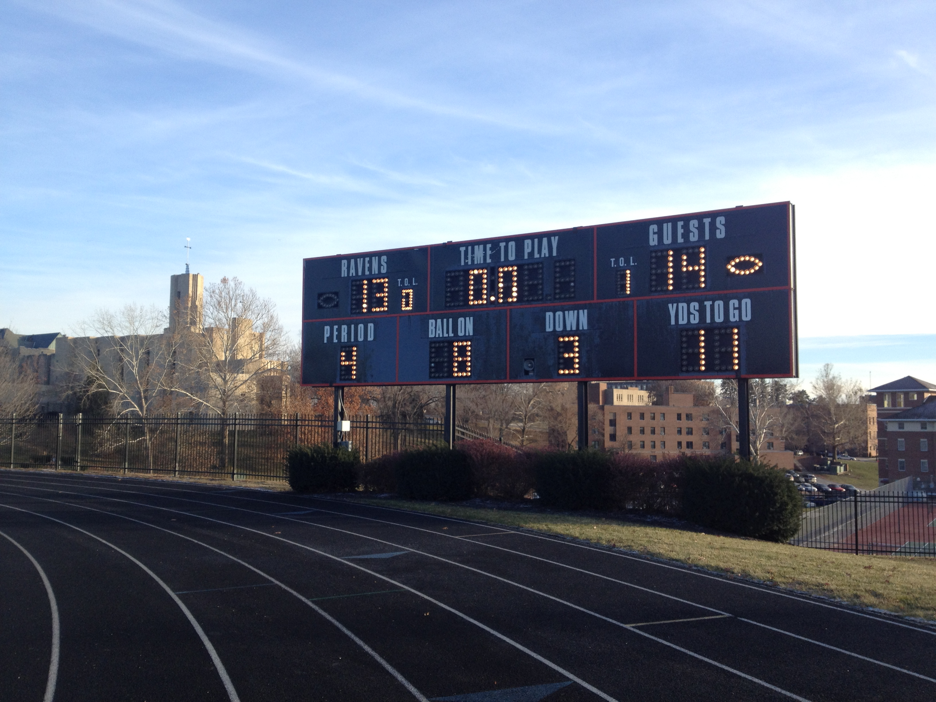 Photo of the scoreboard at the end of the game, first round NAIA Football Championships Tabor vs Benedictine 2013